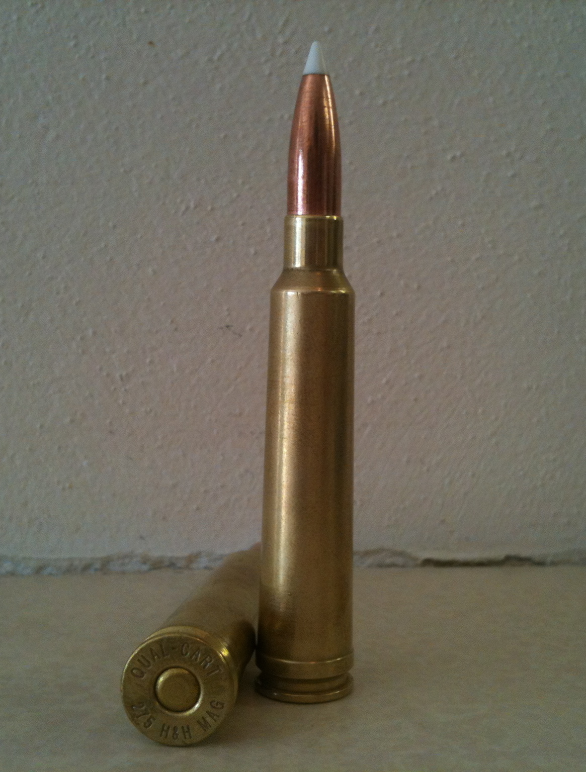 A pair of .275 H&H Magnum hand loads (utilizing Quality Cartridge brass and 7mm Nosler AccuBond bullets).